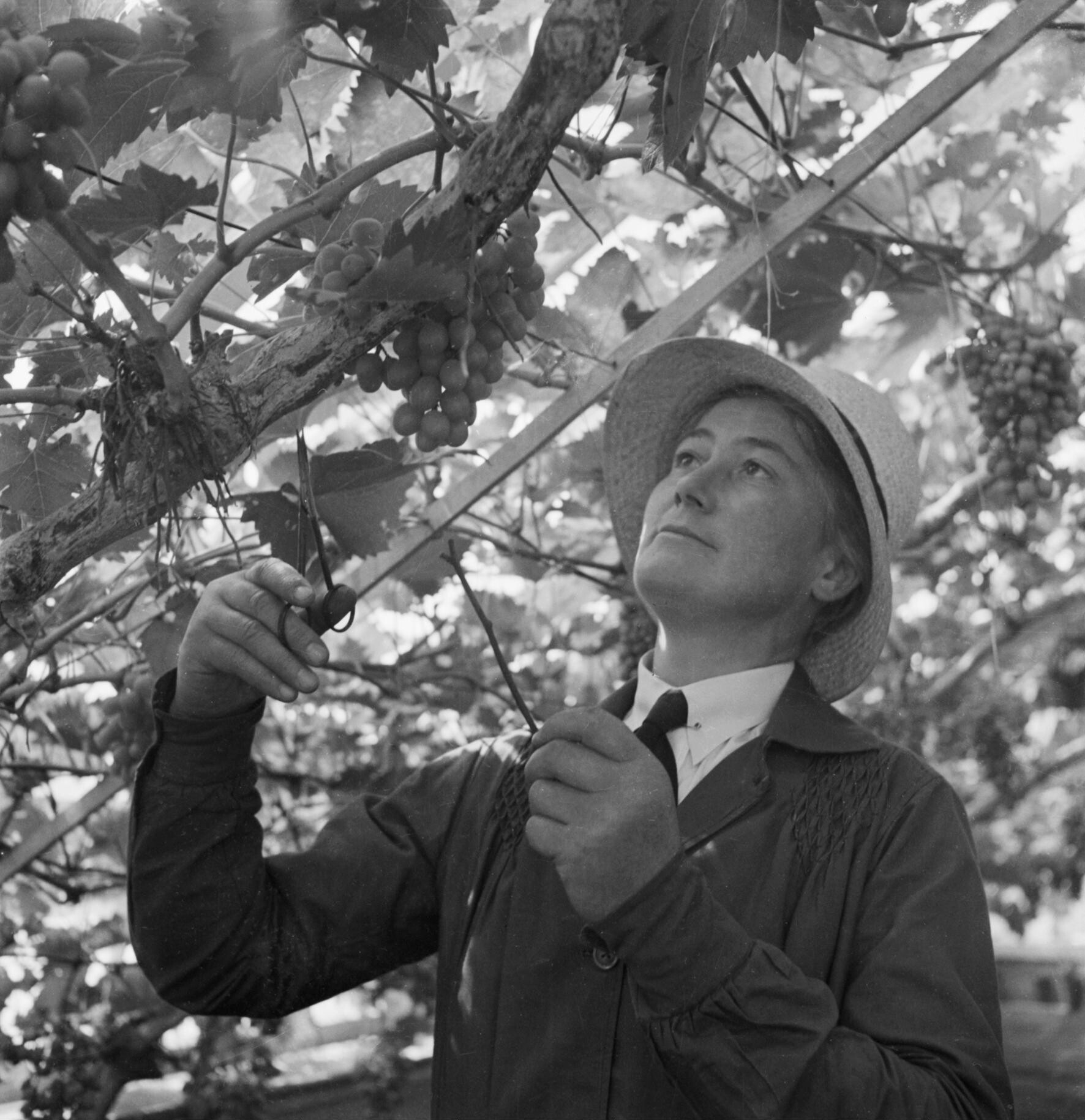 Cecil Beaton Photographs- Women's Horticultural College, Waterperry House, Oxfordshire, 1943 A horticultural school for women now training students in all branches of agriculture and horticulture with special regard to producing disease free crops. Beatrix Havergal, Principal of Waterperry, trained horticulture expert, now trains girls to become efficient gardeners and students of both the practical and theoretical side of horticulture. Here she is tending to the grape vines.